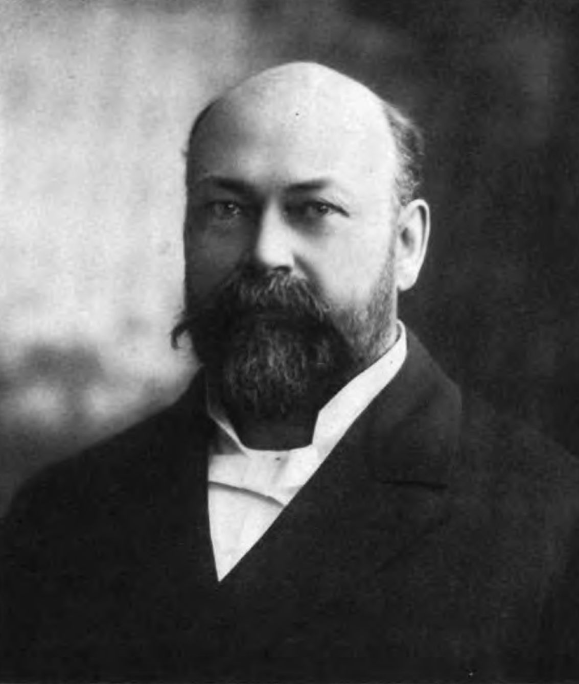 Edwin Hartley Pratt, founder of orificial surgery, from the Chicago Inter-Ocean company's [ History of the City of Chicago], published in 1900.